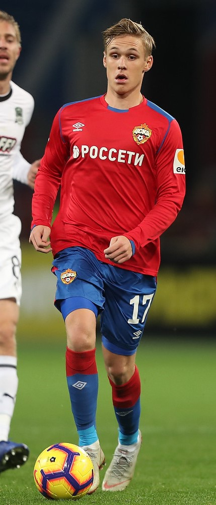 Arnór Sigurðsson